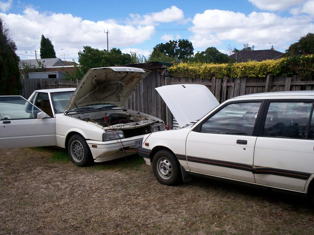 Jumpstarting a vehicle.